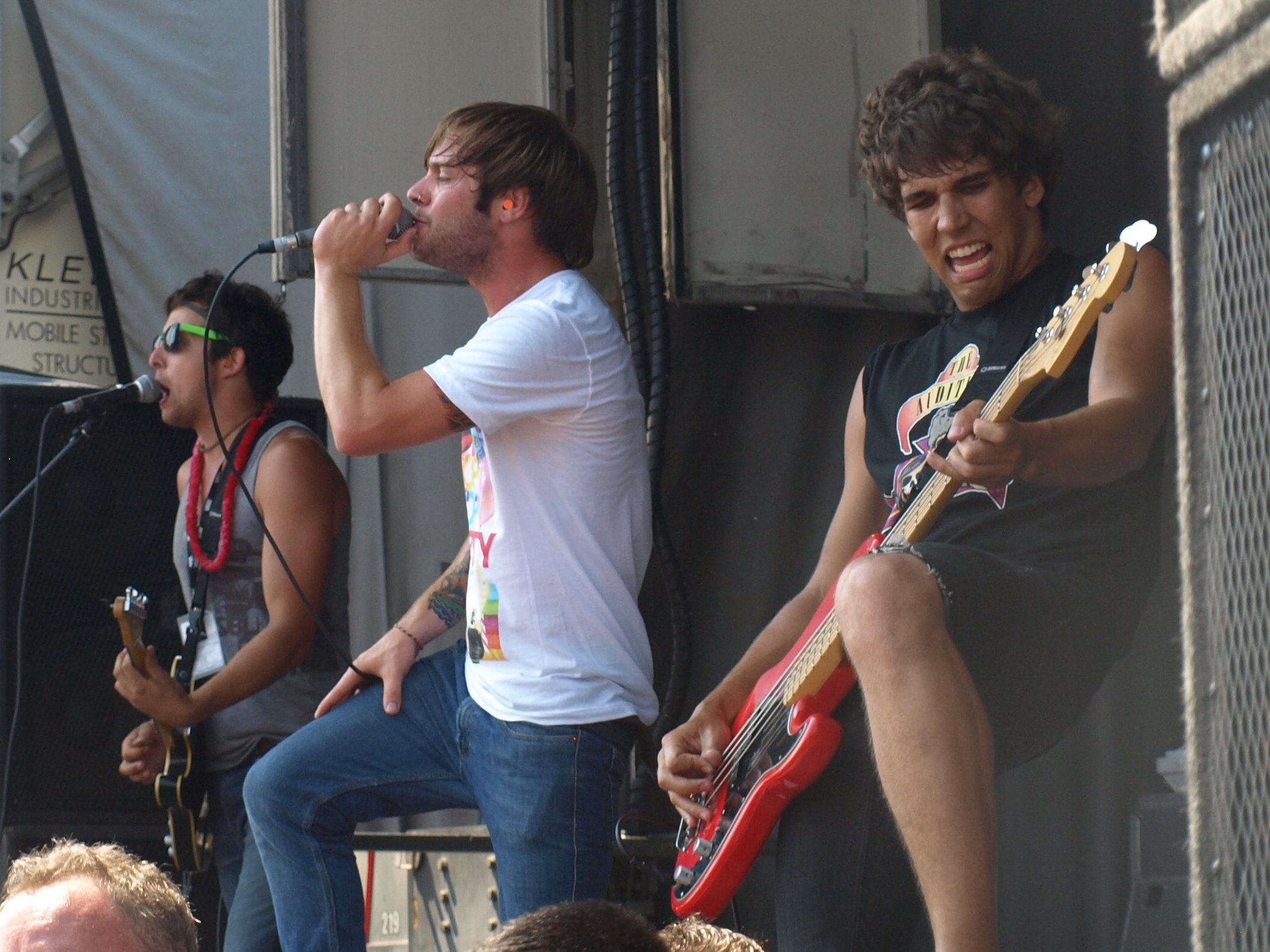 Members of american band Just Surrender performing at 2008 Warped Tour in Uniondale, NY